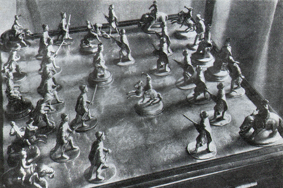 Chess of Michael I of Russia